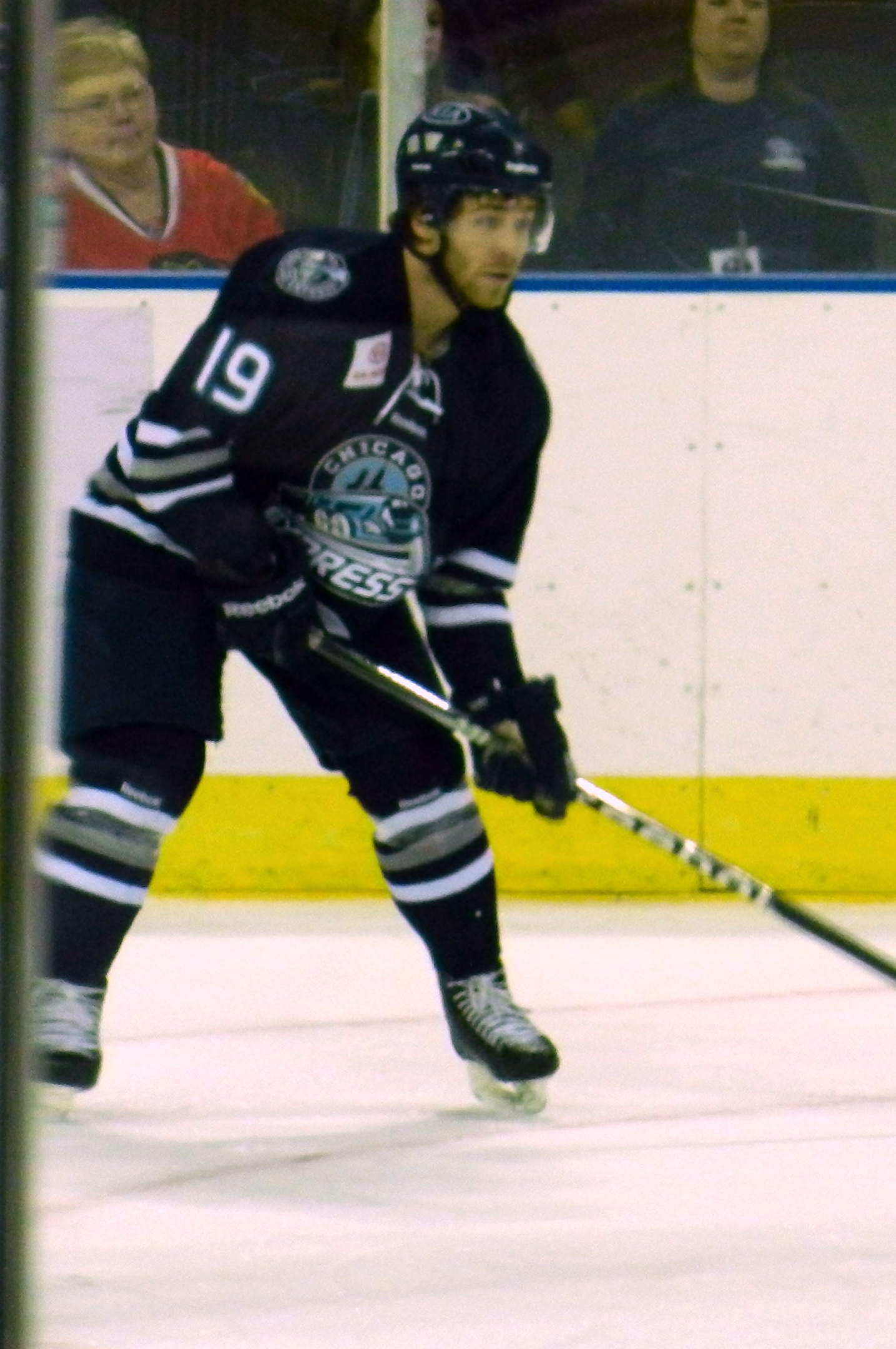 Tyler Donati playing for the Chicago Express during the 2011-12 ECHL season